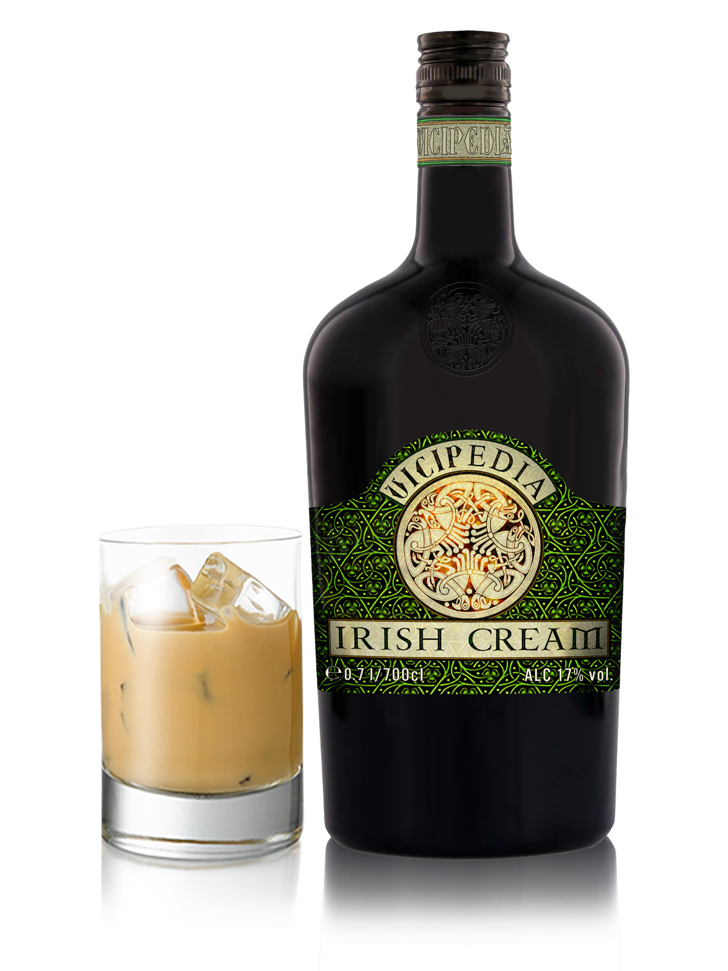 A fictional bottle of irish cream with a glass full of cream